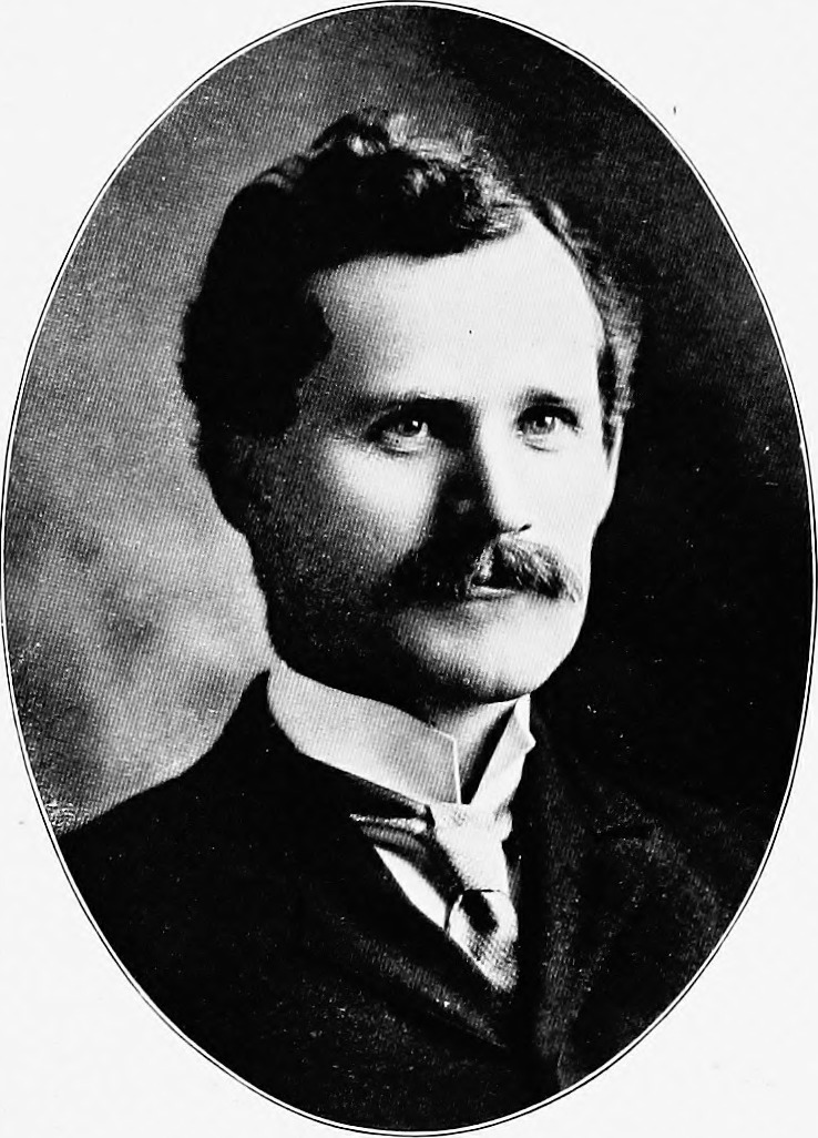 Portrait